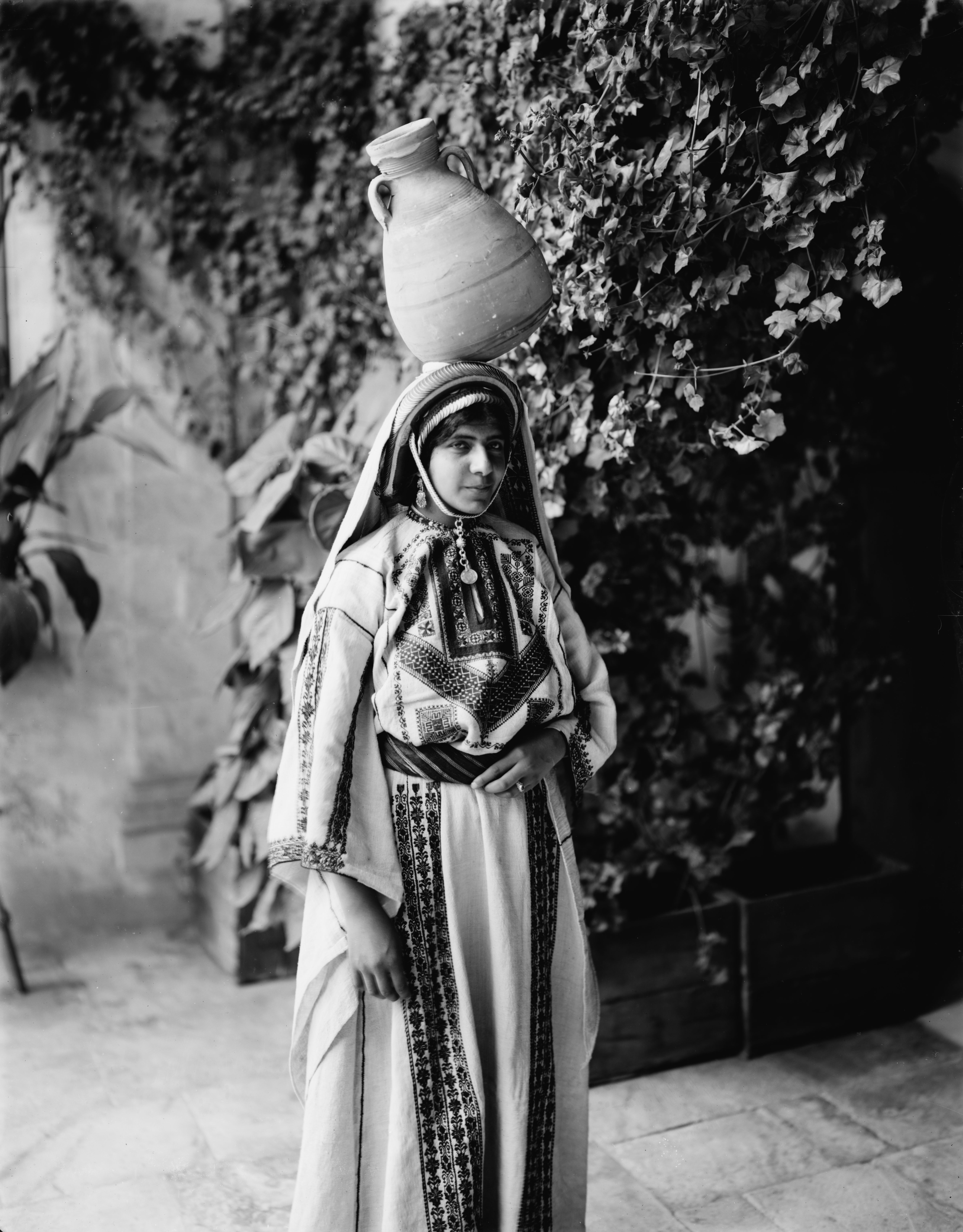 girl in Ramallah Palestine in folk costume